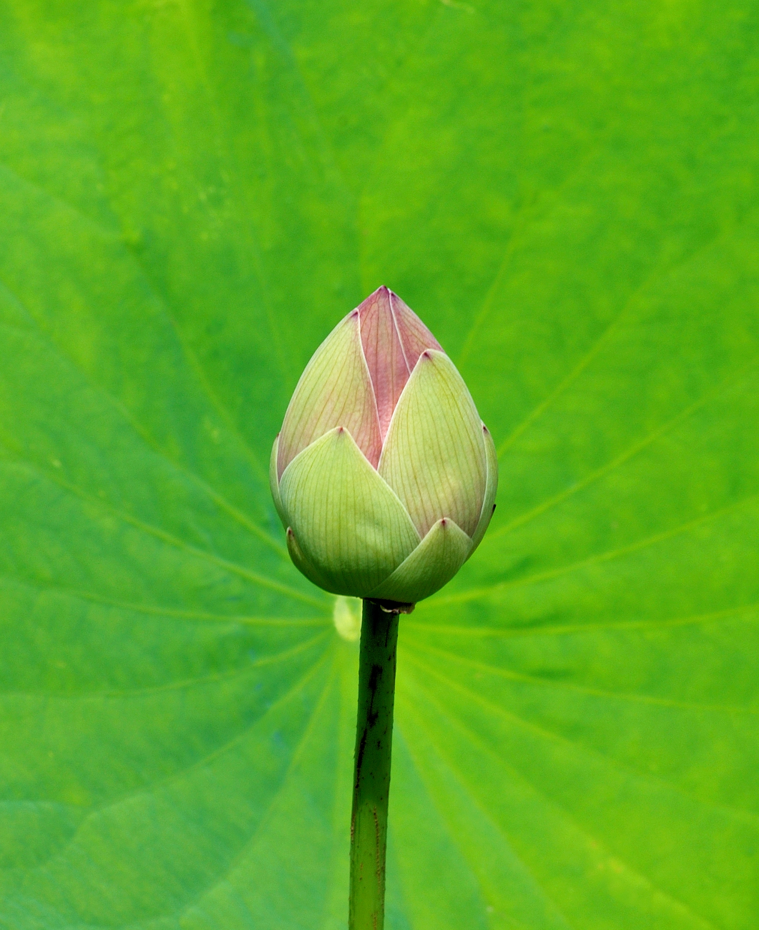 Bud of Indian Lotus (Nelumbo nucifera). Jardin des Plantes, Paris